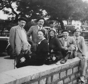 a photo of Leopold Seyffert, Ernest Hemingway, and Maurice Speiser with their families.